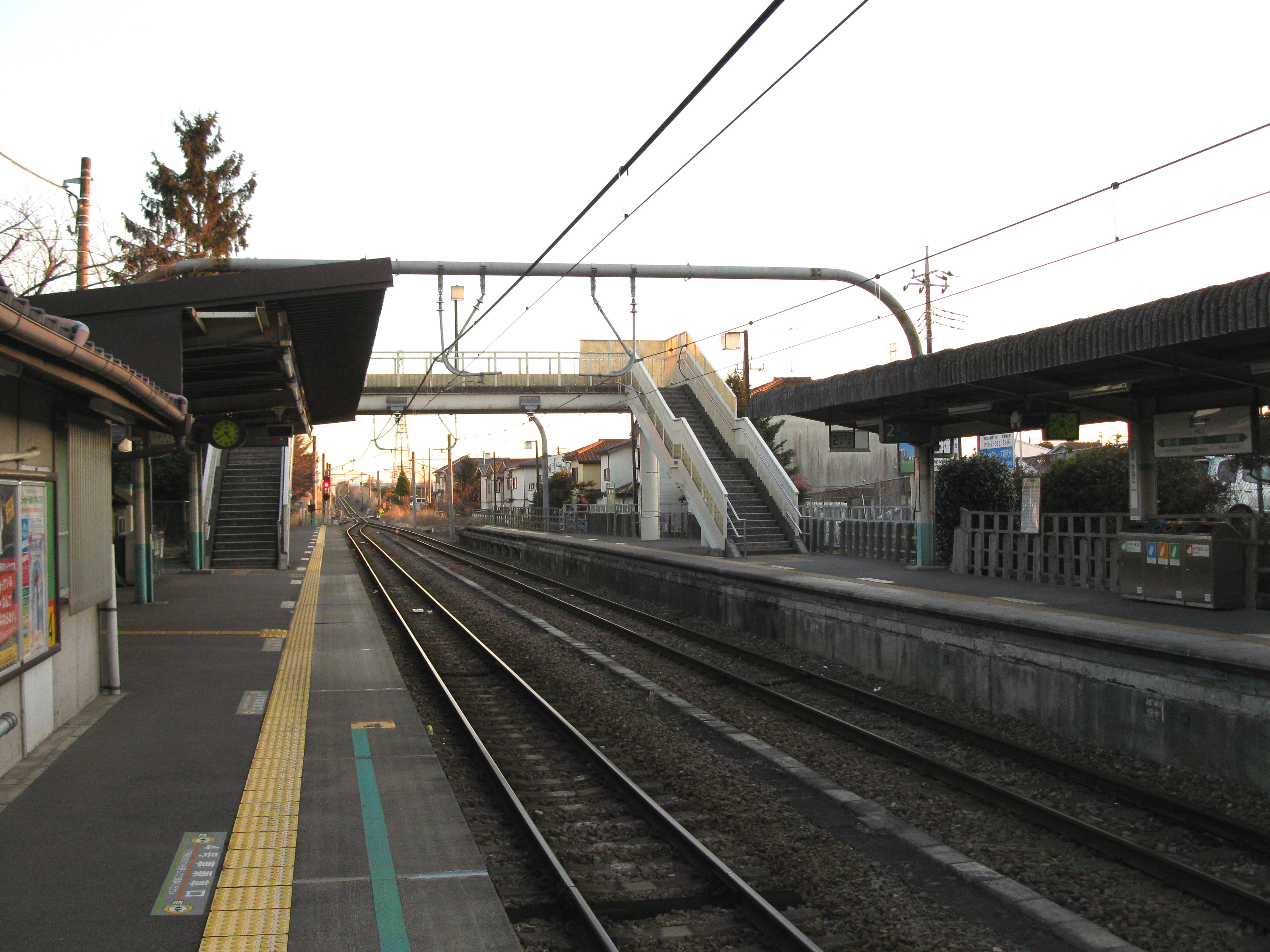 Kaneko Station platform (East Japan Railway Hachikō Line)